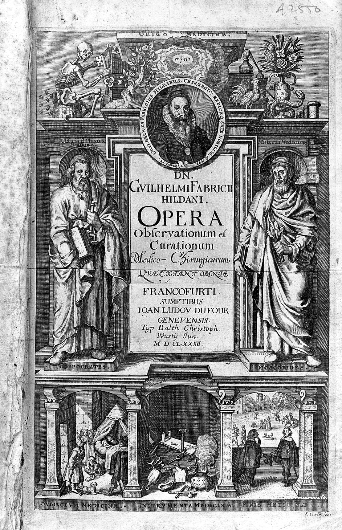 Title page Rare Books